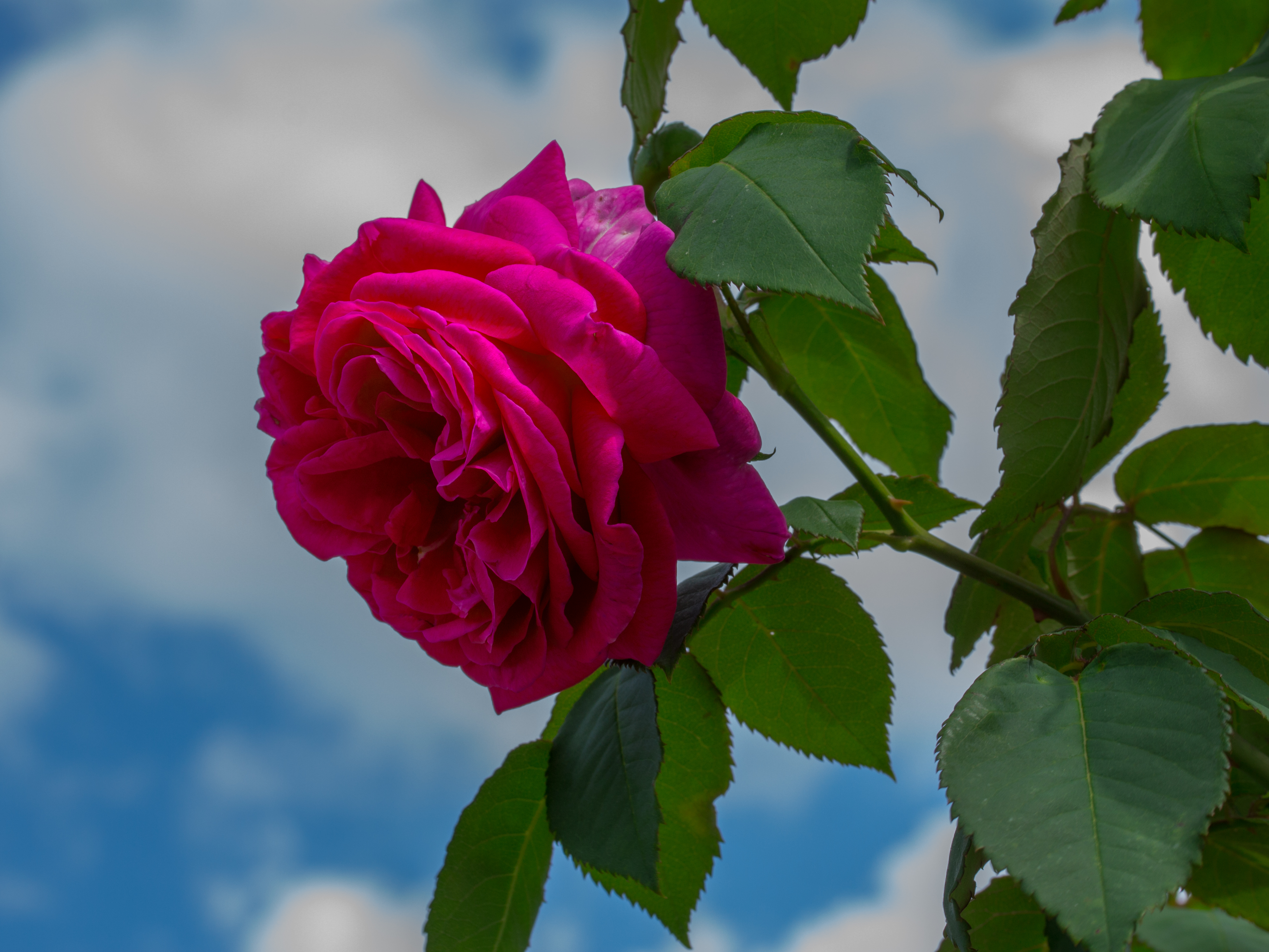 Rosa 'Madame Isaac Pereire'. Location De Kruidhof.